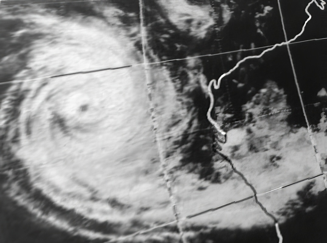 Satellite image of Severe Tropical Cyclone Alby on 2 April 1978